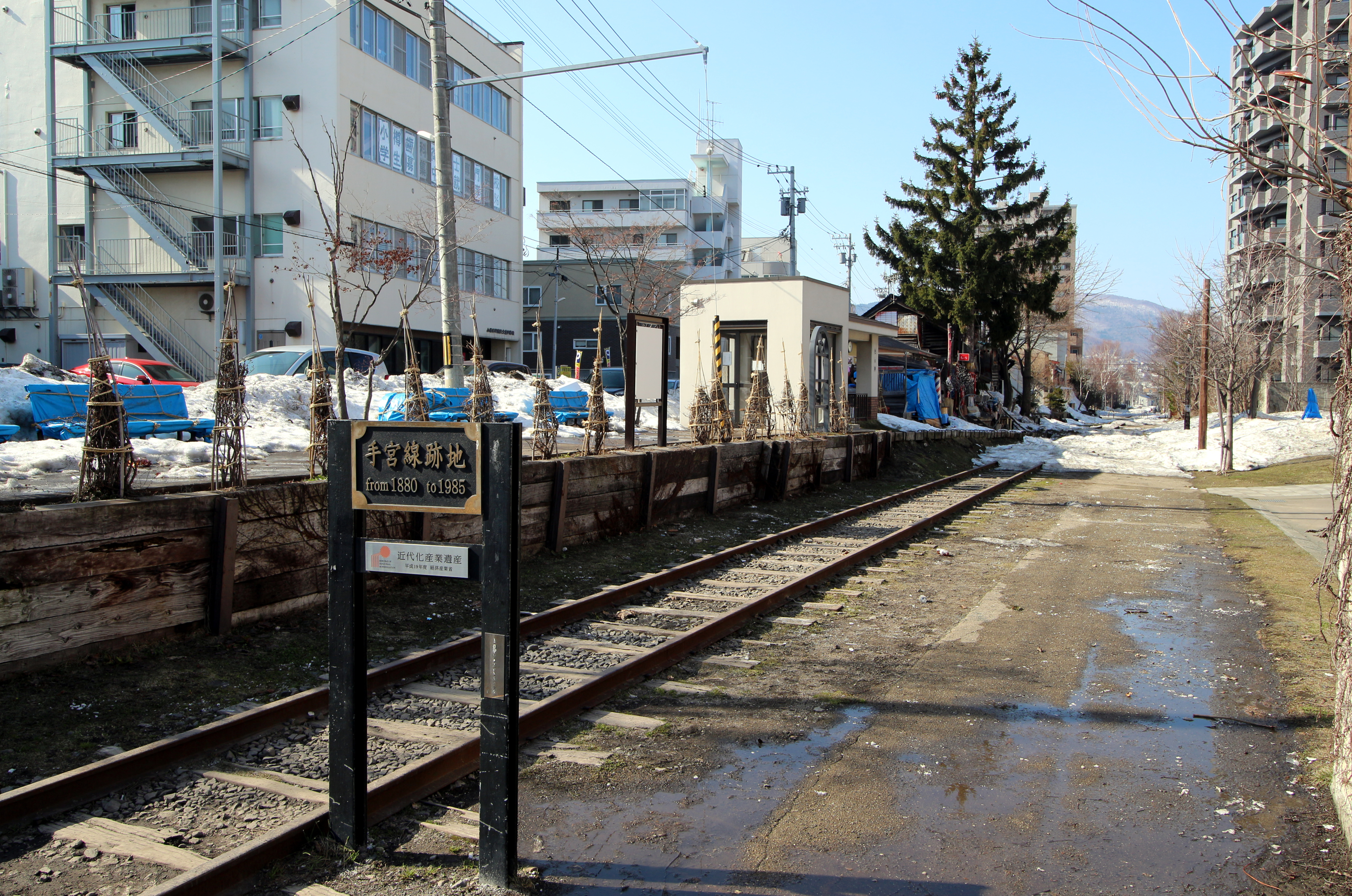 Ironai Station in Otaru, Hokkaido. Closed in 1962 (or 1985 according to the plaque).